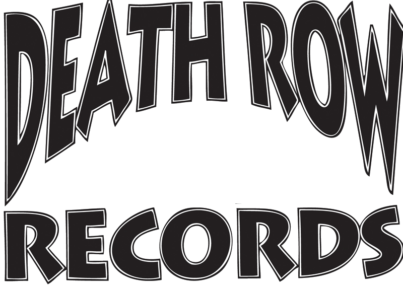 Death Row Records logo.